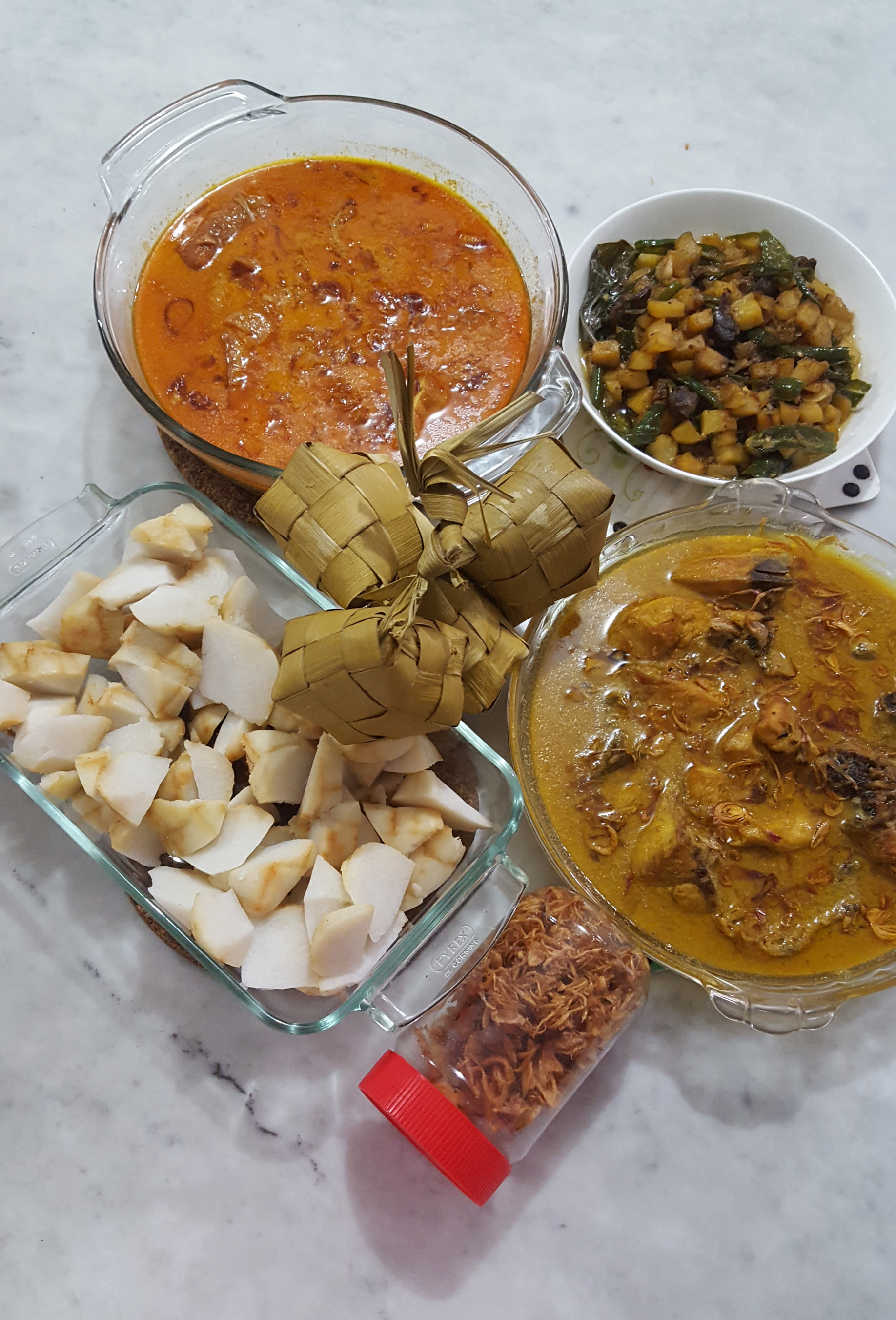 Opor Ayam, Gulai, Ketupat, Diced Potatoes with Spices, and Fried Onions served during Eid in Indonesia